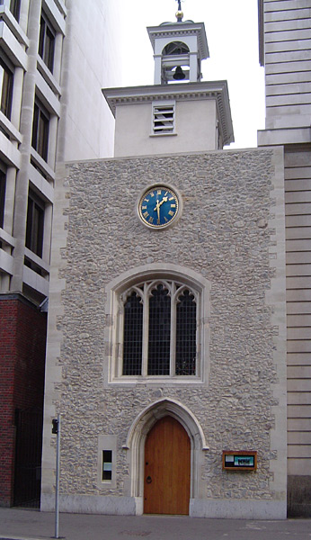 St Ethelburga Bishopsgate, London Image by ChrisO